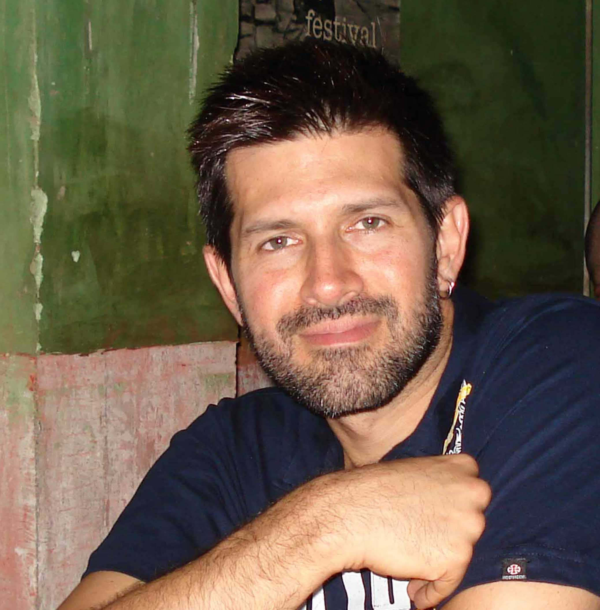 Profile Photo of Tapu Javeri